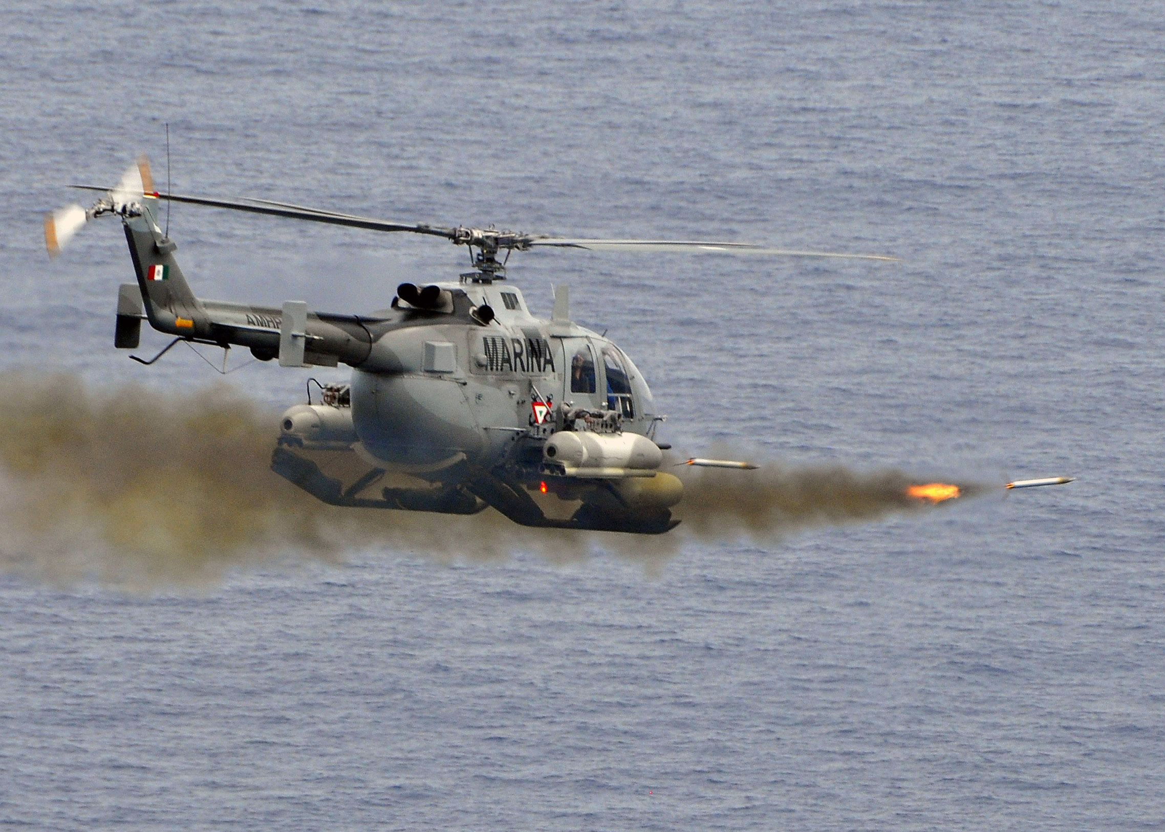 A Mexican BO-105 Bolkow helicopter fires 2.75 inch high-explosive rockets at the ex-USS Connolly (DD 979) in a sinking exercise that took place during UNITAS Gold. This year marks the 50th iteration of UNITAS, a multinational exercise that provides opportunities for participating nations to increase their collective ability counter illicit maritime activities that threaten regional stability. Participating countries are Brazil, Canada, Chile, Colombia, Ecuador, Germany, Mexico, Peru, U.S. and Uruguay.